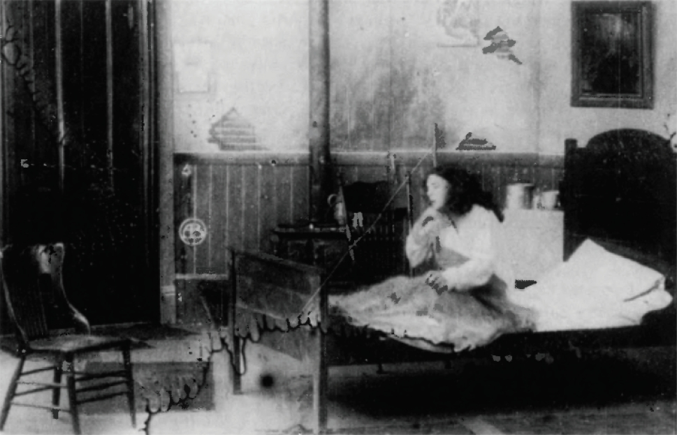 Still from Biograph Company's "Old Isaac(s), the Pawnbroker", a 1908 melodramatic picture directed by Wallace "Old Man" McCutcheon, Sr., after David W. Griffith' first accepted script. Note a) the rotten film at the foot end of the bed; and b) the "AB" logo right from the door. American Biograph and many other film production companies marked their studios this way, to prevent copyright violations